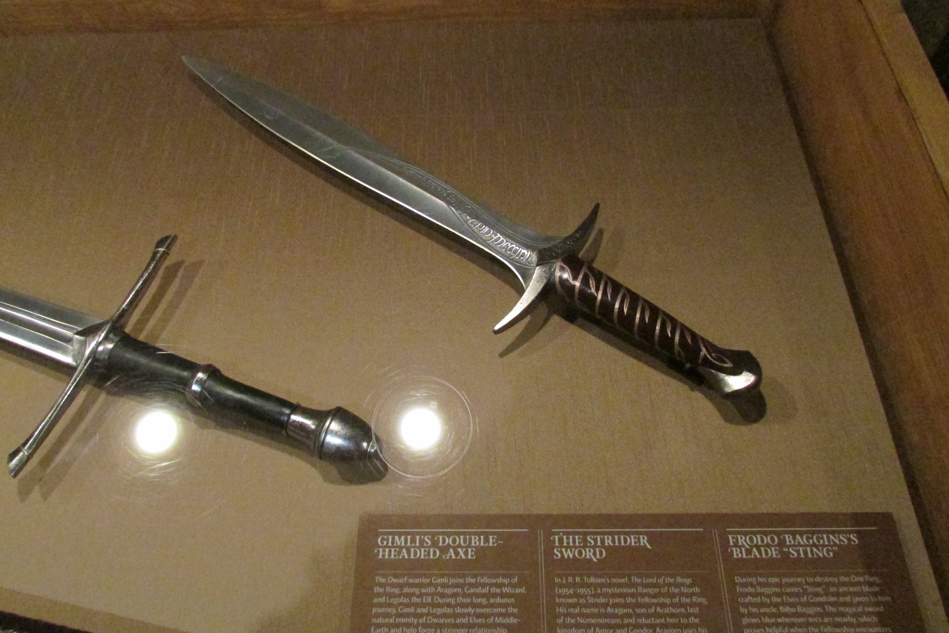 Lord of the Rings props at the EMP Museum, Seattle.